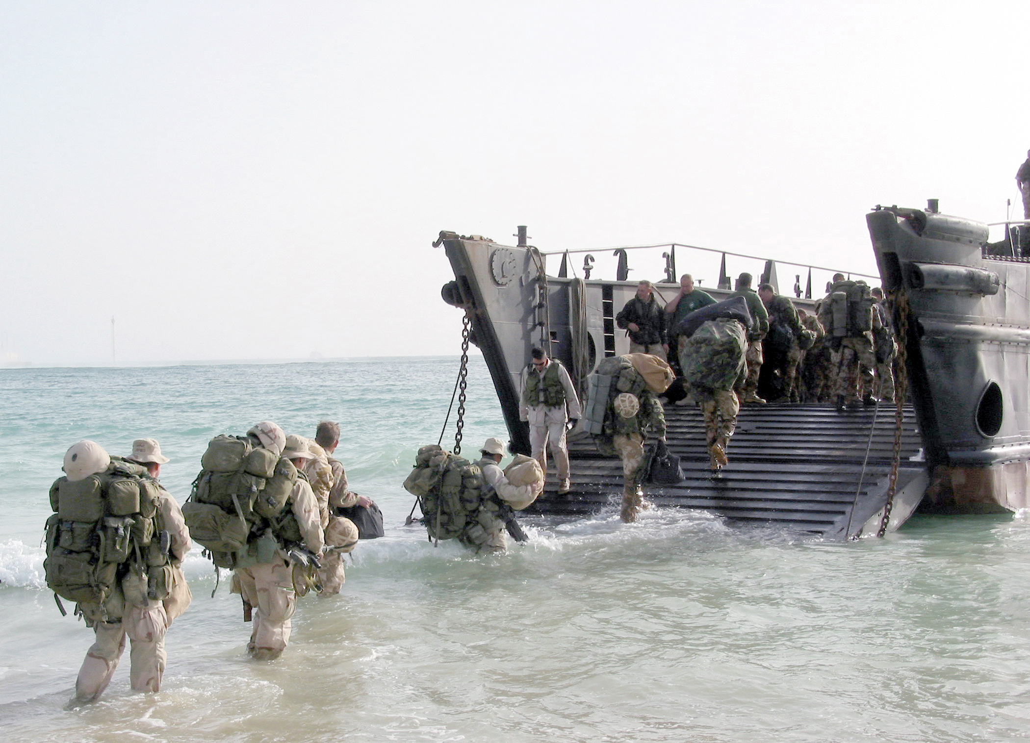 Camp Patriot, Kuwait (Feb. 26, 2003) -- Royal Marines from the 40th Commando unit load onto a Landing Craft Utility (LCU) following intensive training in the Kuwaiti Desert. Coalition forces have been training together here in recent months, in preparation for any future operations in the Central Command area of responsibility. U.S. Navy photo by Journalist 1st Class Joseph Krypel. (RELEASED)